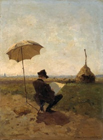 De kunstschilder Gabriel buiten schilderend